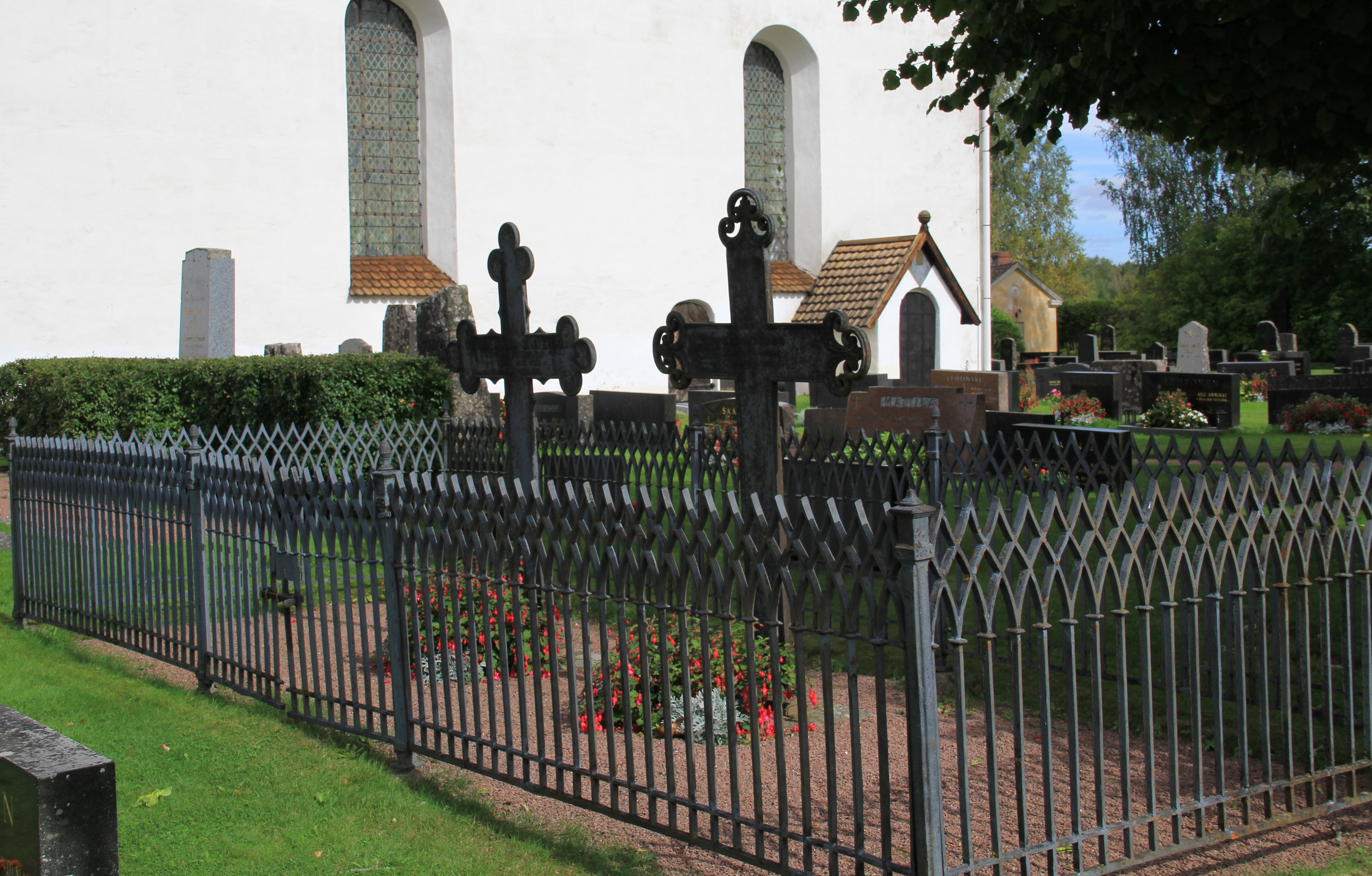 Askainen church, Askainen, Masku, Finland. - Wendla Sophia Mannerheim (née von Willebrandt, 1779-1863) and Sofie von Knorring (née von Haartman, 1840-1863) graves.